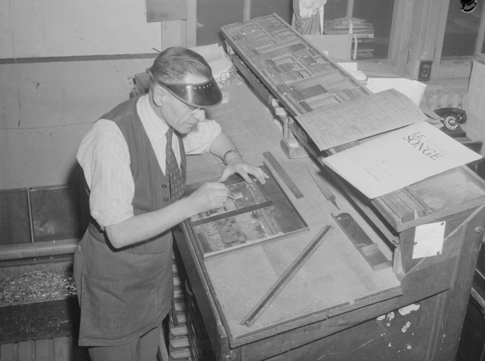 Typographer makes a book layout.